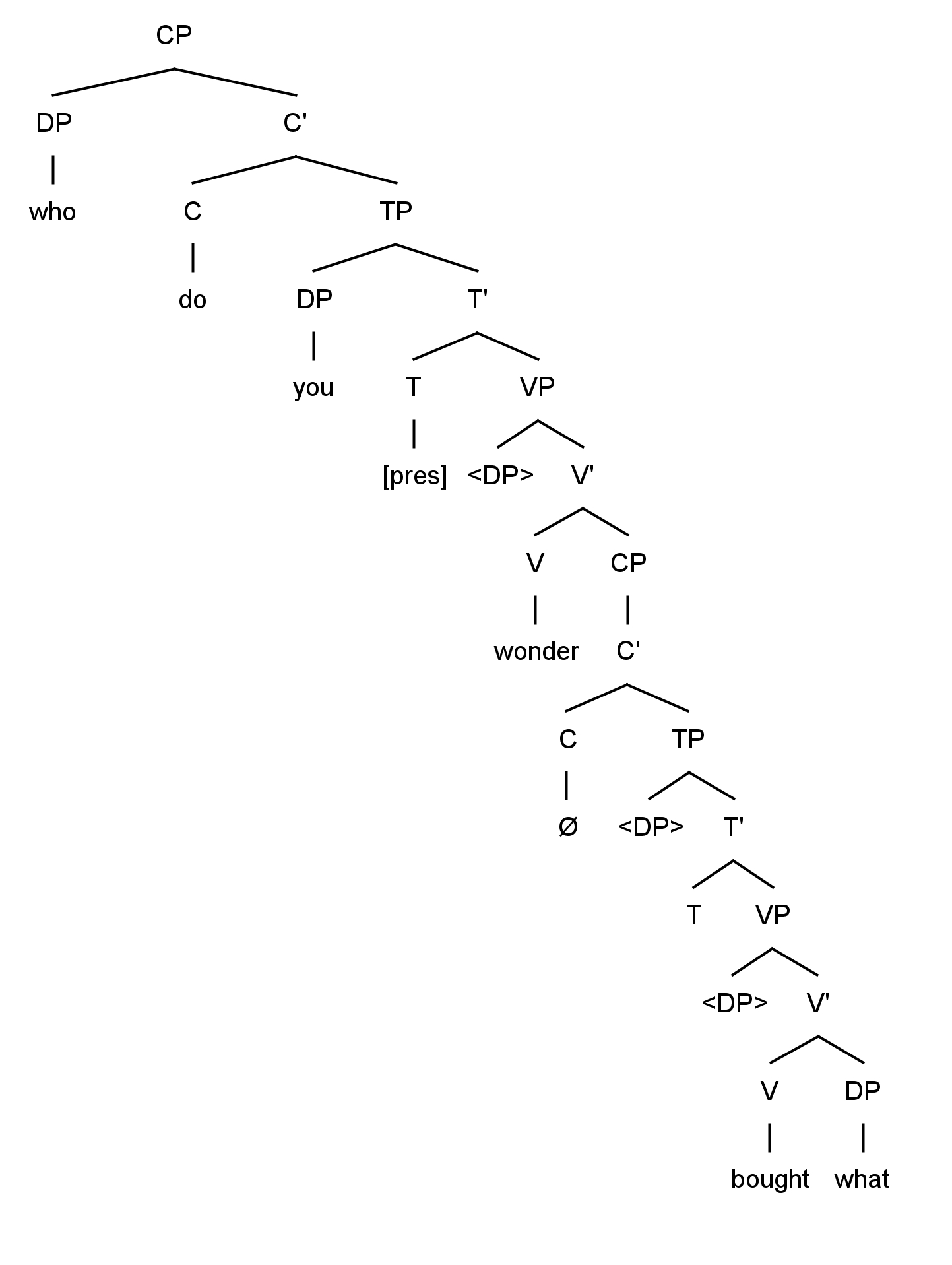 Syntactic tree demonstrating ungrammatical wh-movement